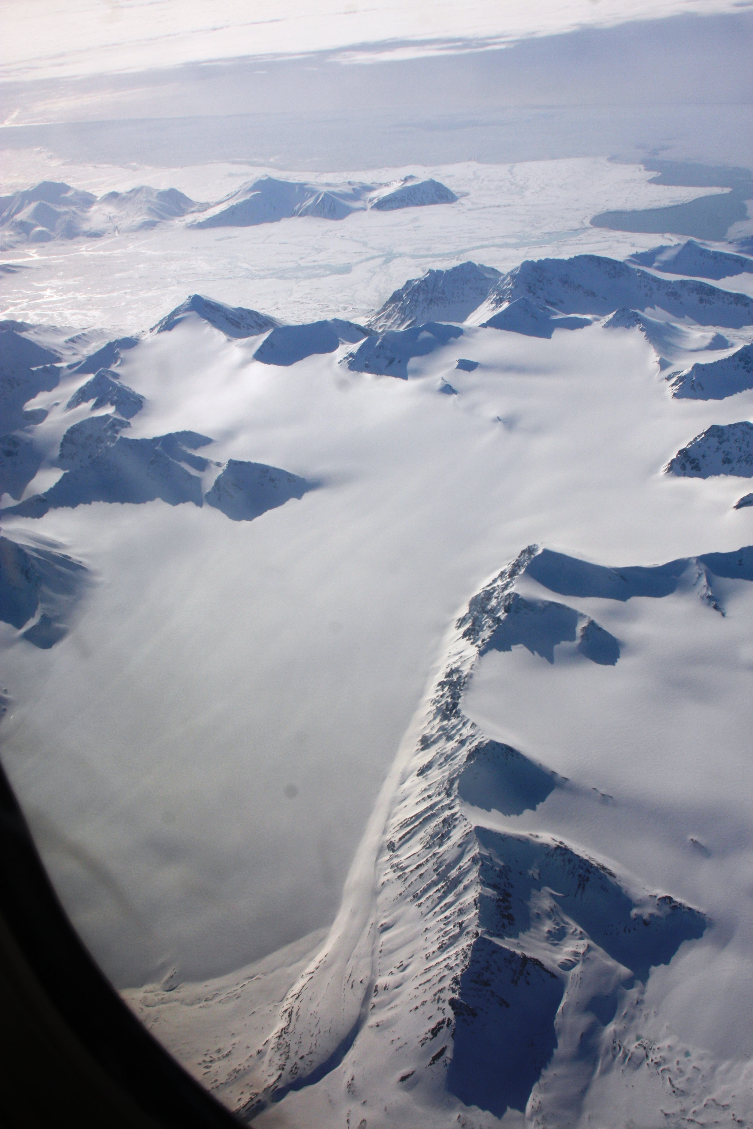 Northwestern Wedel Jarlsberg Land, southwestern Svalbard. In the foreground is the glacier Renardbreen, with the steep, long cliffs of Bohlinryggen.